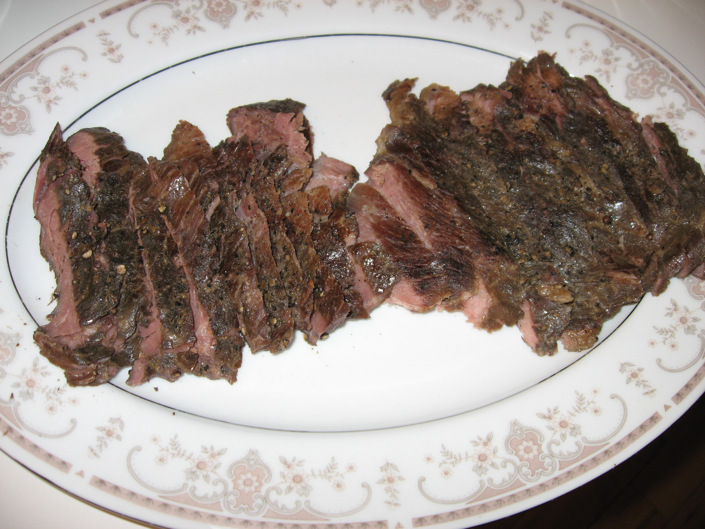 Flap steak, or Flap meat (IMPS/NAMP 185A, UNECE 2203)) is a beef steak cut. It comes from a bottom sirloin butt cut of beef, and is generally a very thin steak.